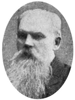 Kirill Tomashevich, deputy of State Duma of Russian empire